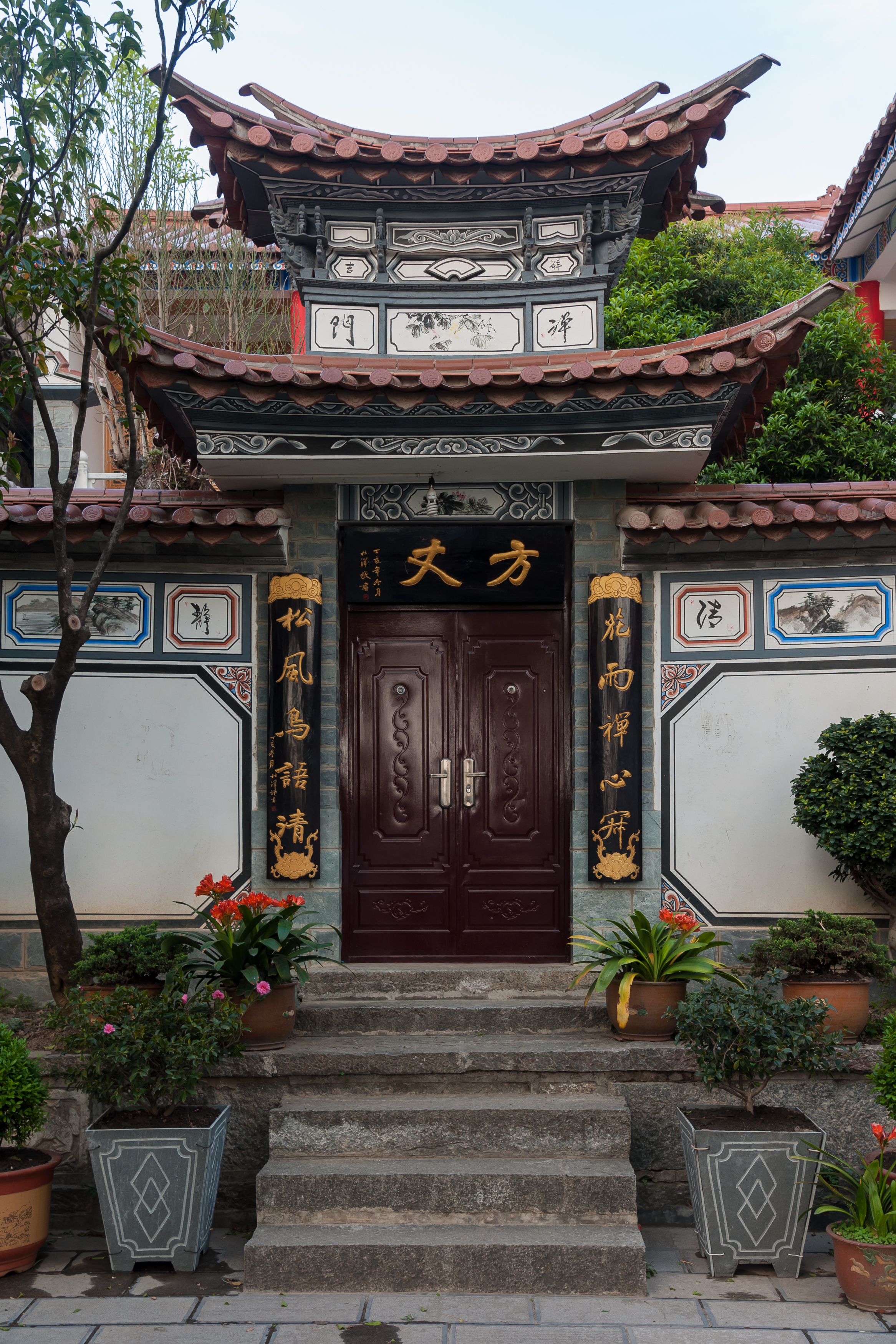 Dali, Yunnan, China: Ornamented door within the historic town walls of Dali